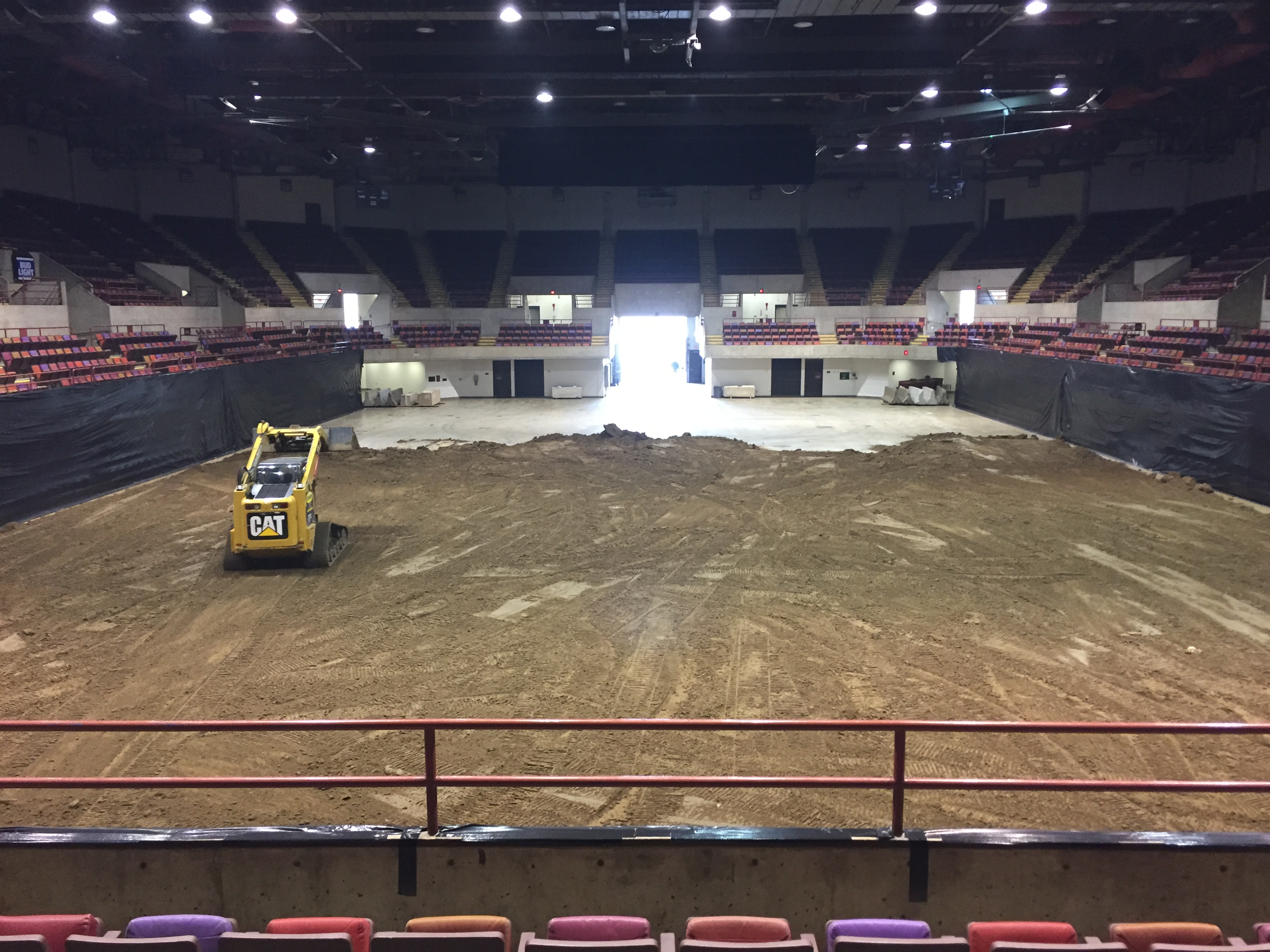 La Crosse Center setting up for monster trucks